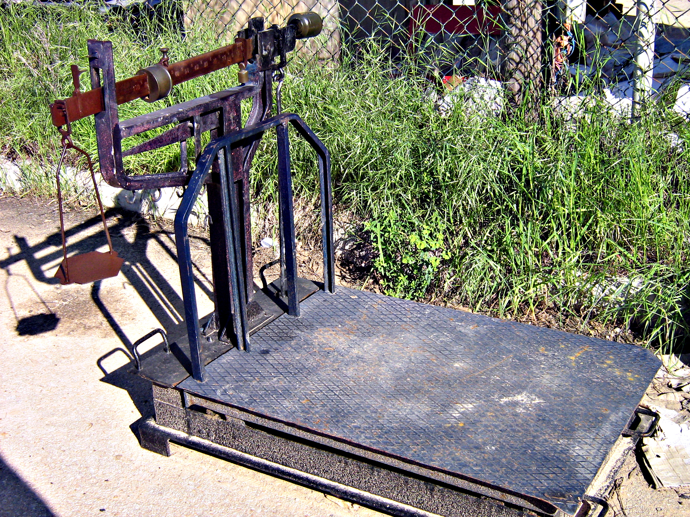 Weighing scale. Libya. 2008 year.